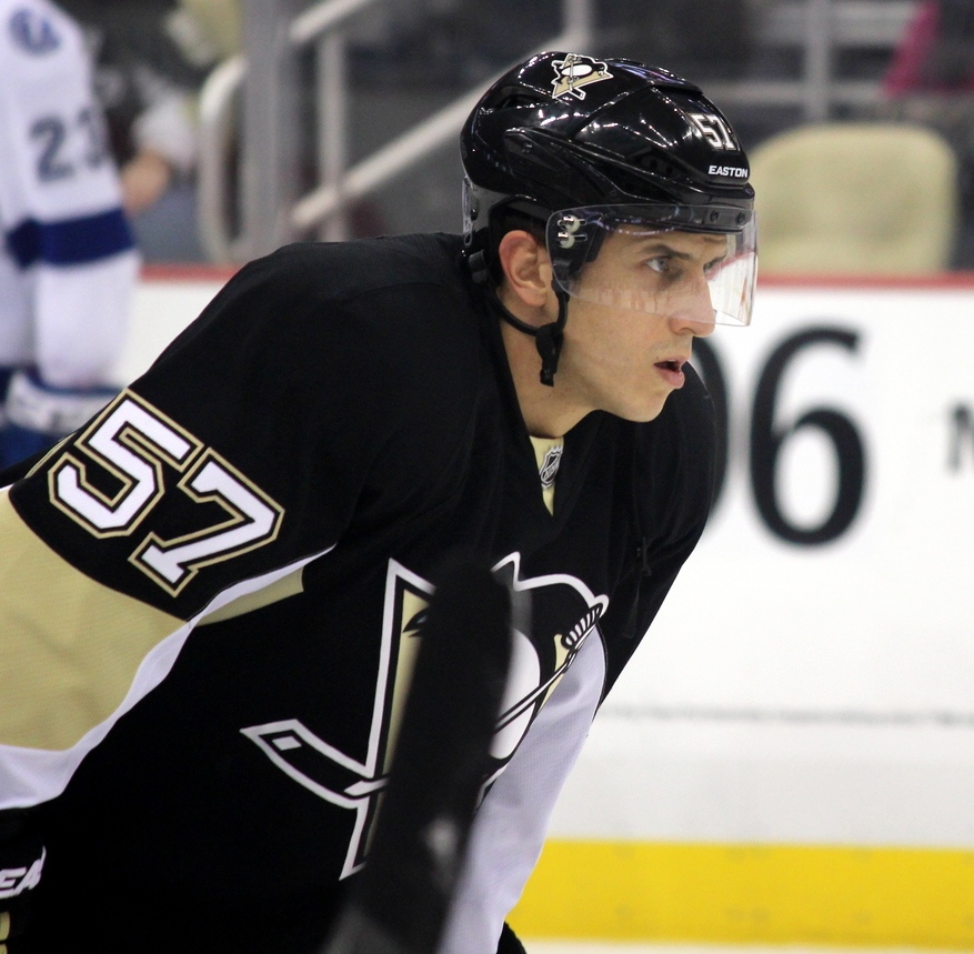 Pittsburgh Penguins forward Marcel Goc skates against the Tampa Bay Lightning, March 22, 2014, at Consol Energy Center in Pittsburgh, PA.